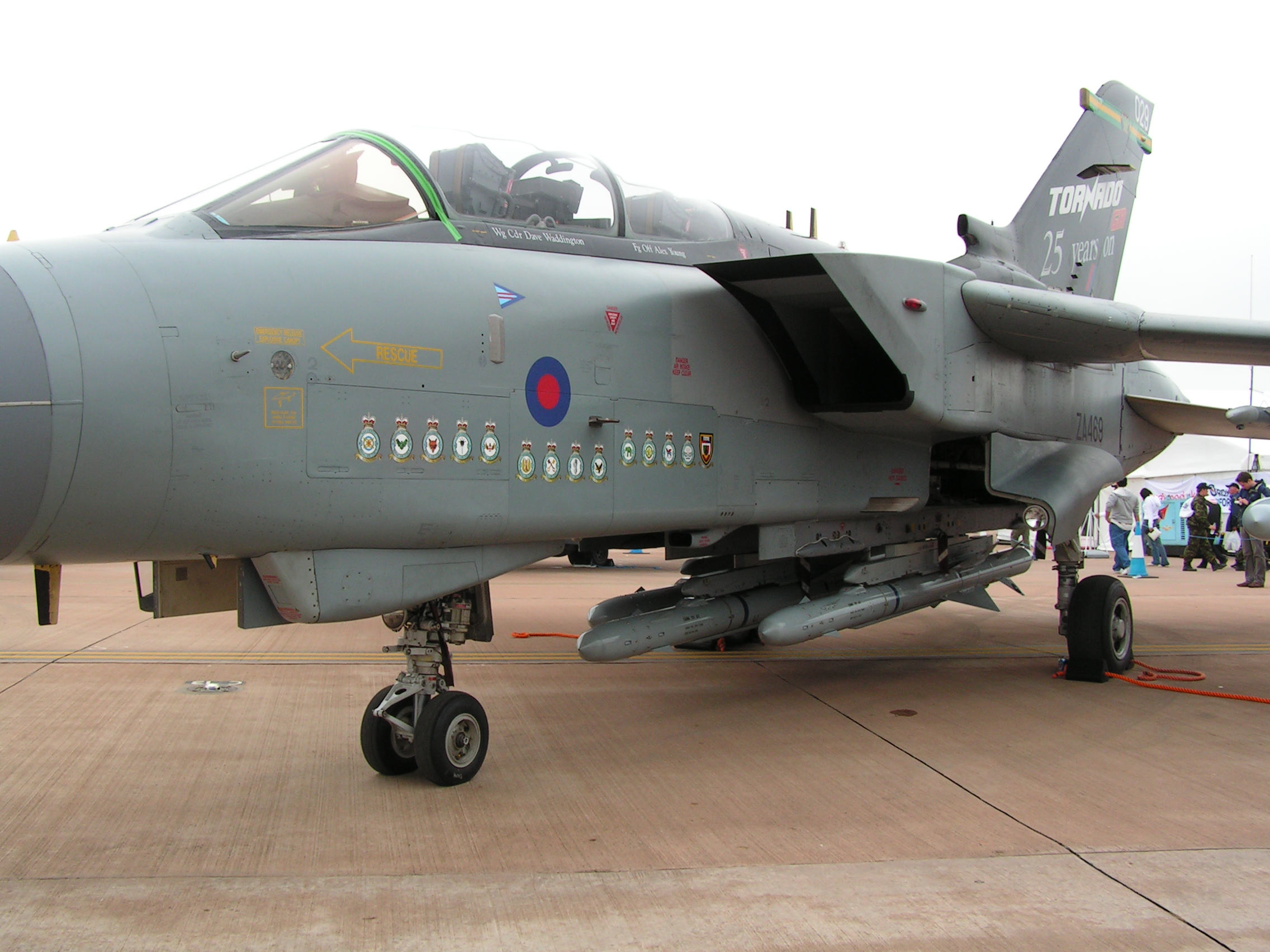 Three ALARMs carried under the belly of an RAF Tornado.